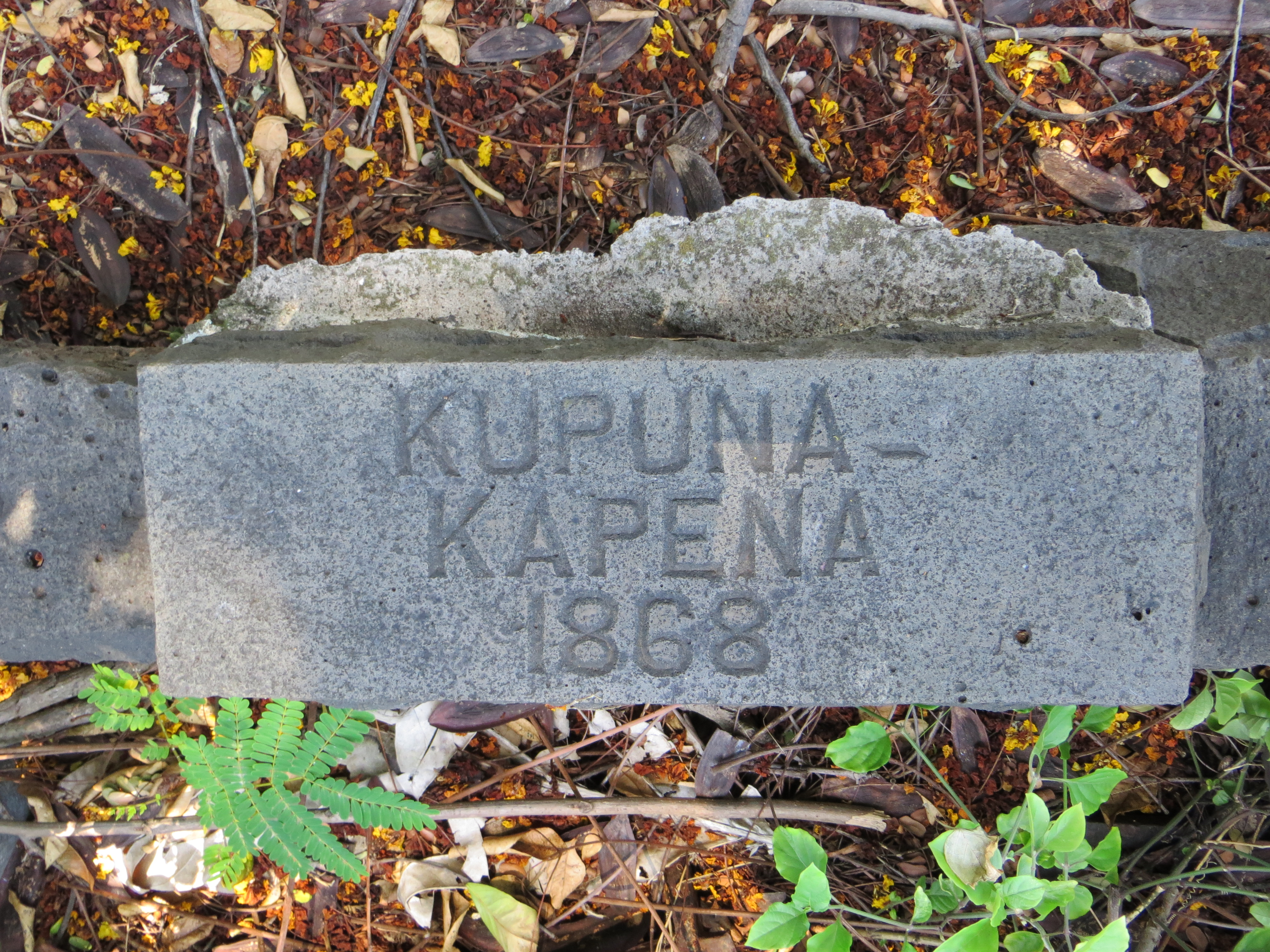 Grave marker for Kupuna Kapena, d. 1868, in Kawaiaha‘o Church cemetery, Honolulu, Hawaii